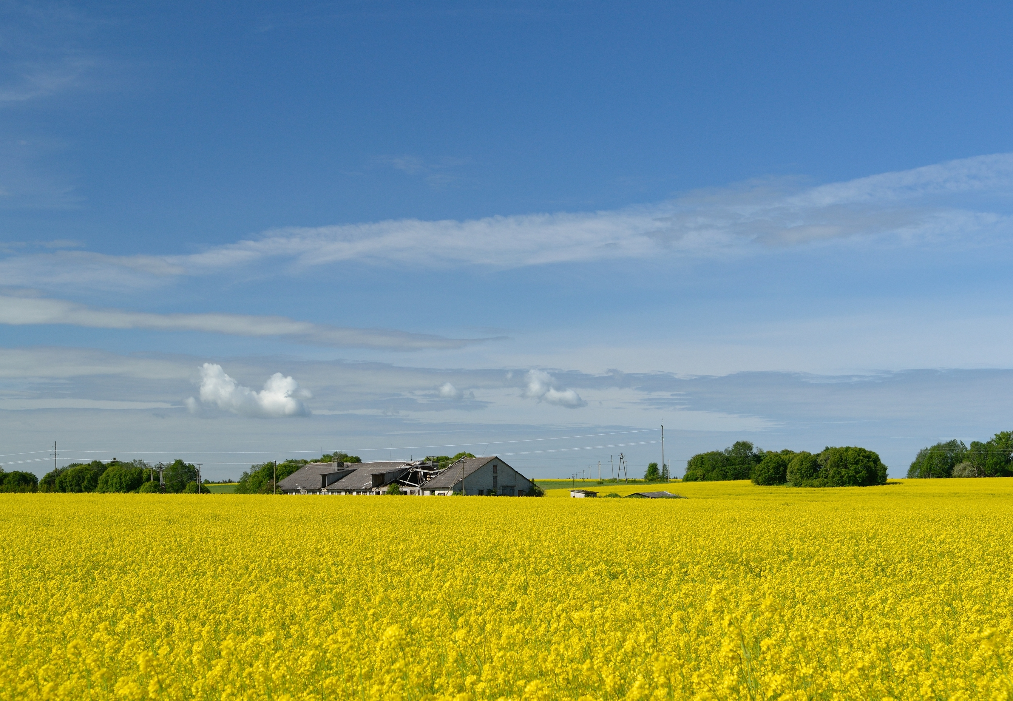 Võipere village, on foreground flowering Brassica napus field